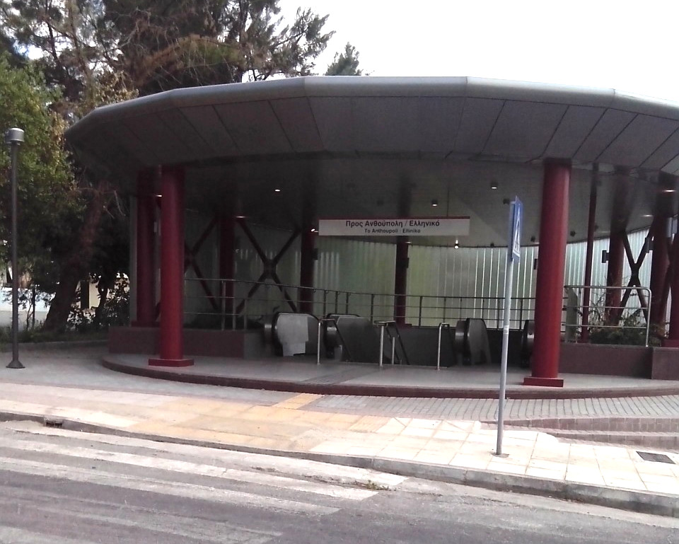 photo of the athens metro argiroupoli station, entrance from the road to athens. 1 of 2 entrance, line 2.